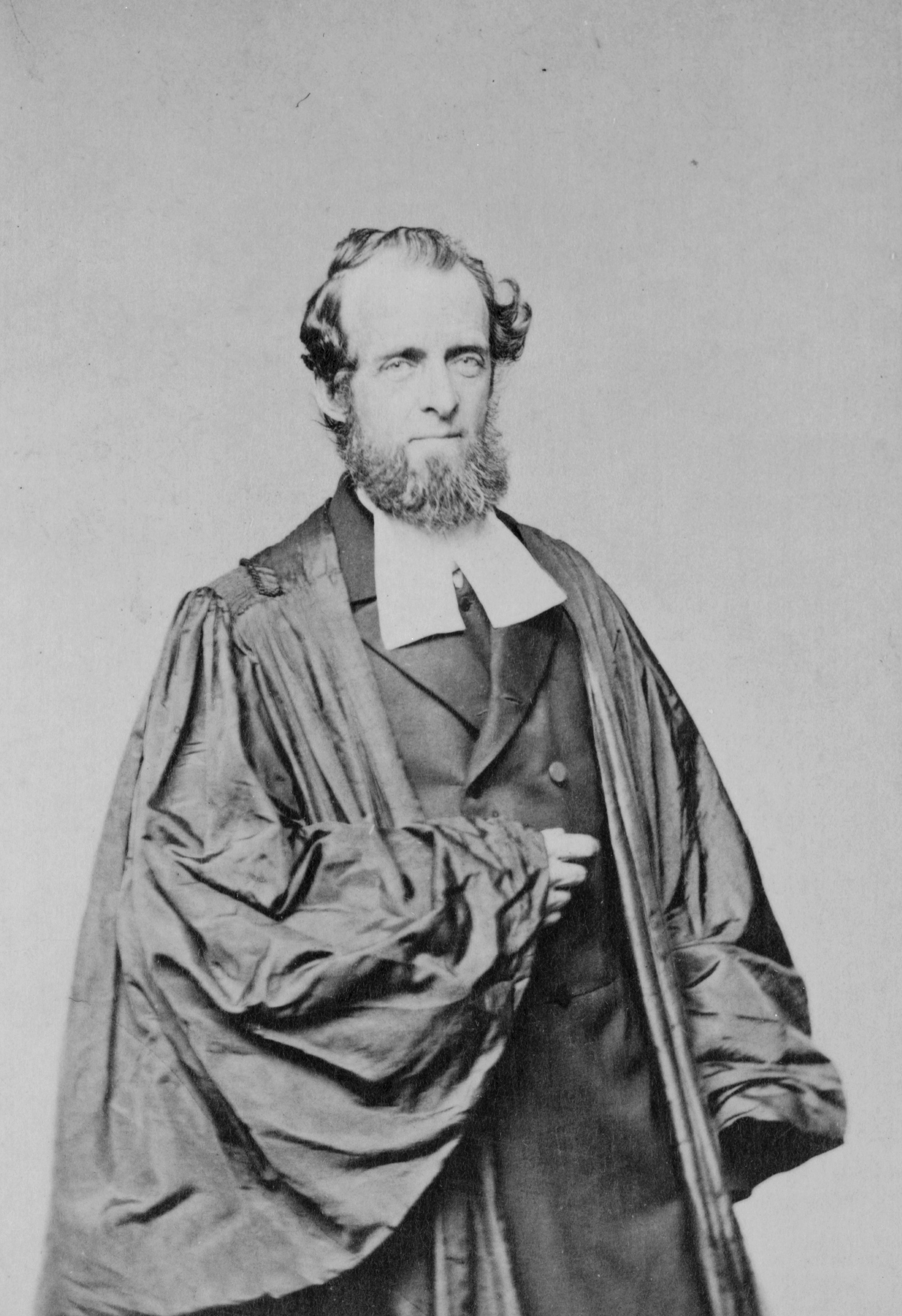 Title: Rev. C.M. Butler, half-length portrait, standing, facing front Abstract/medium: 1 photographic print.